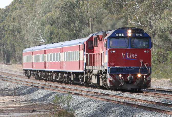 V/Line passenger train lead by N class locomotive, between Mangalore and Seymour stations, North East railway line, Victoria, Australia